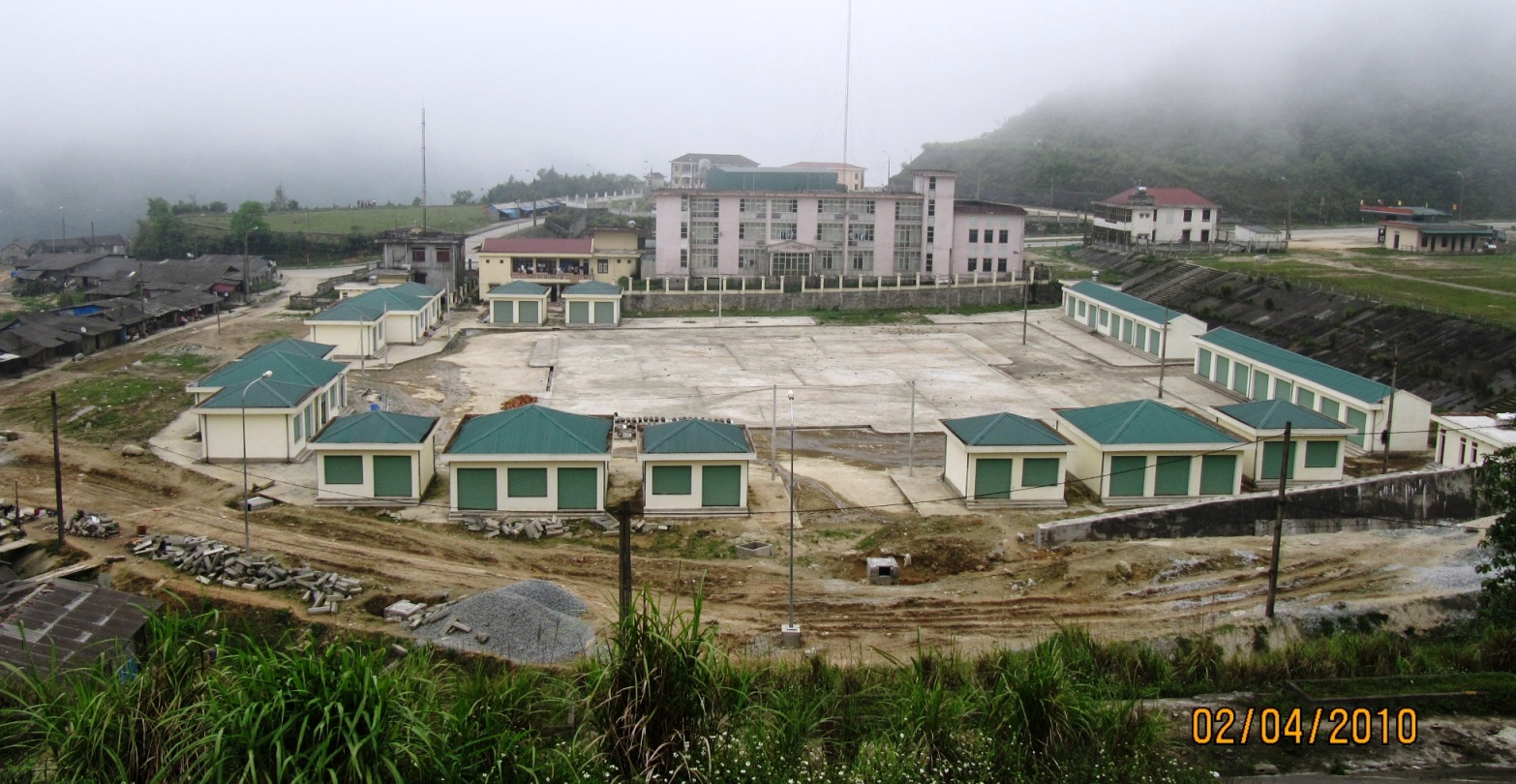 Industrial plant near to the Cau Treo border gate